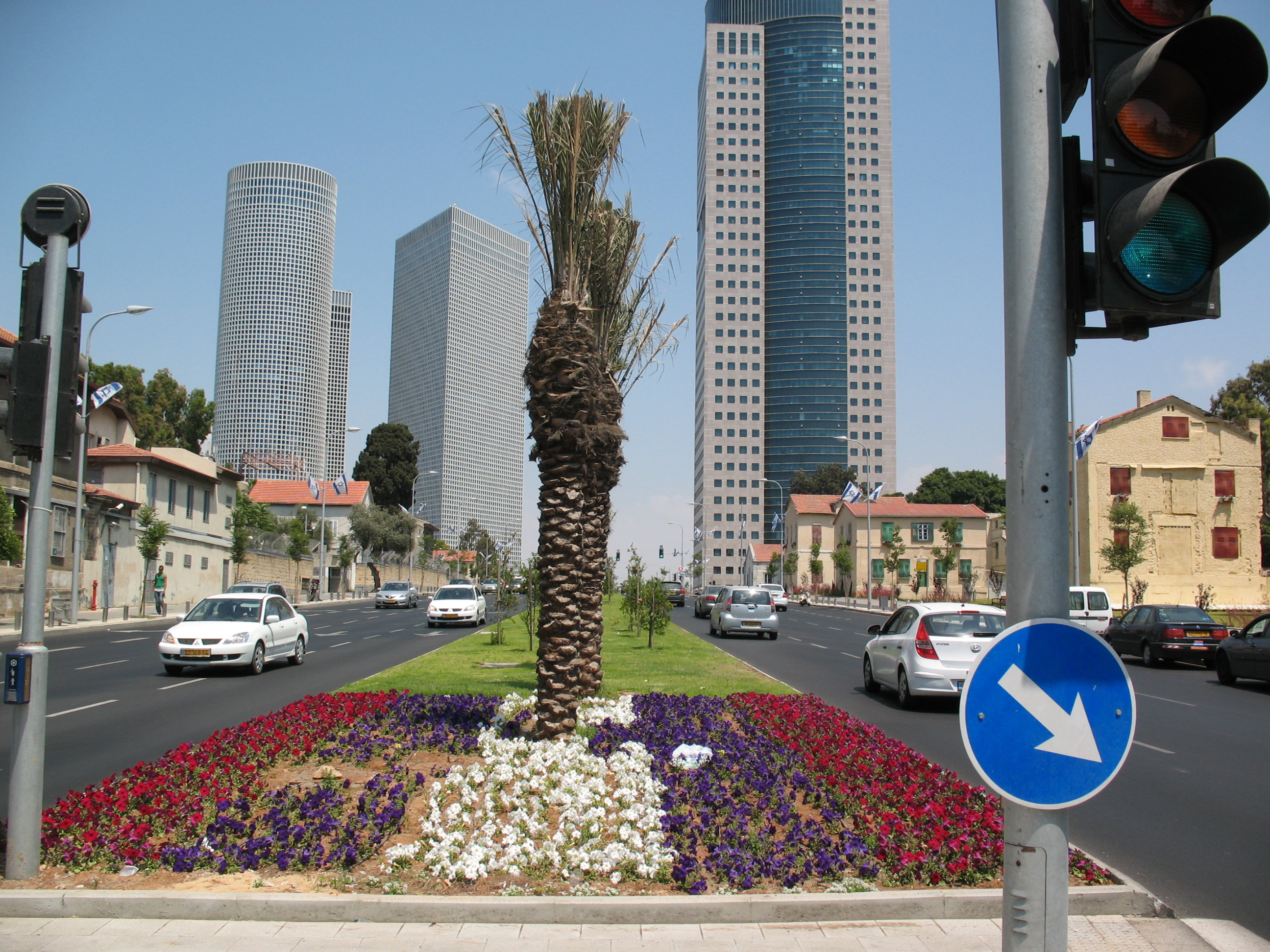 Kaplan St. Hakirya, Tel Aviv, Israel. View from west to east.